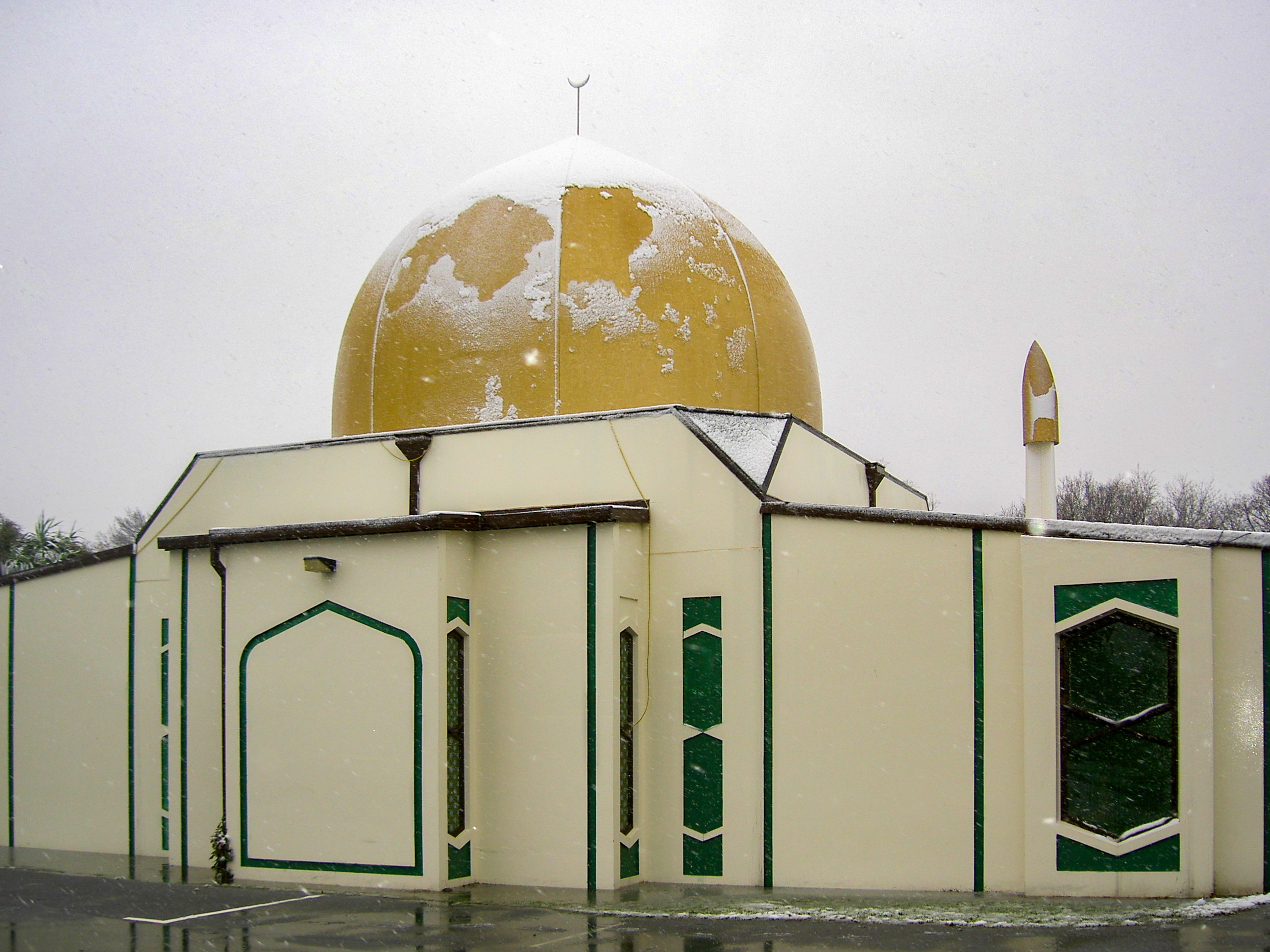 Canterbury Mosque, Christchurch, New Zealand, 12 June 2006.